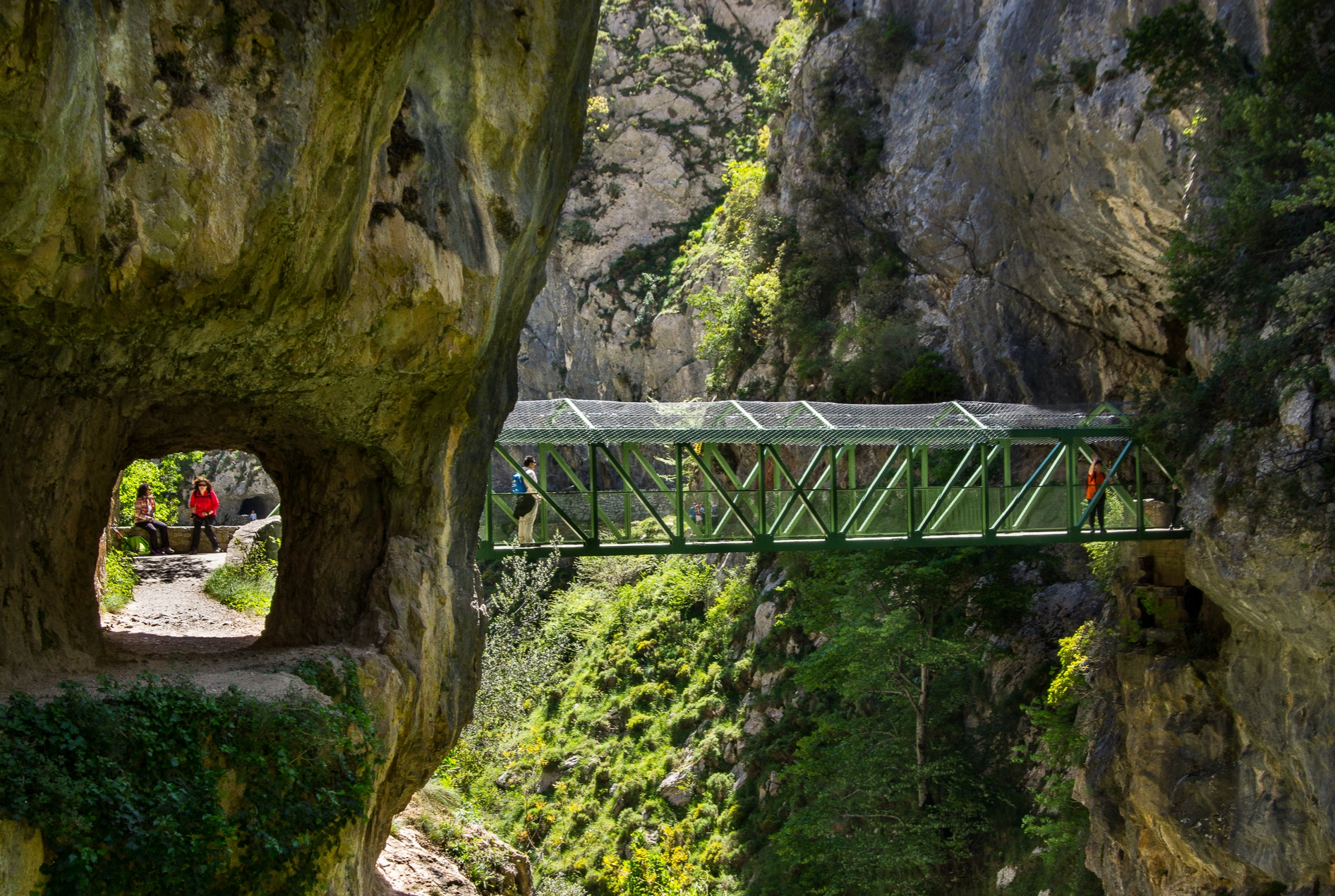 Picture along the Ruta del Cares